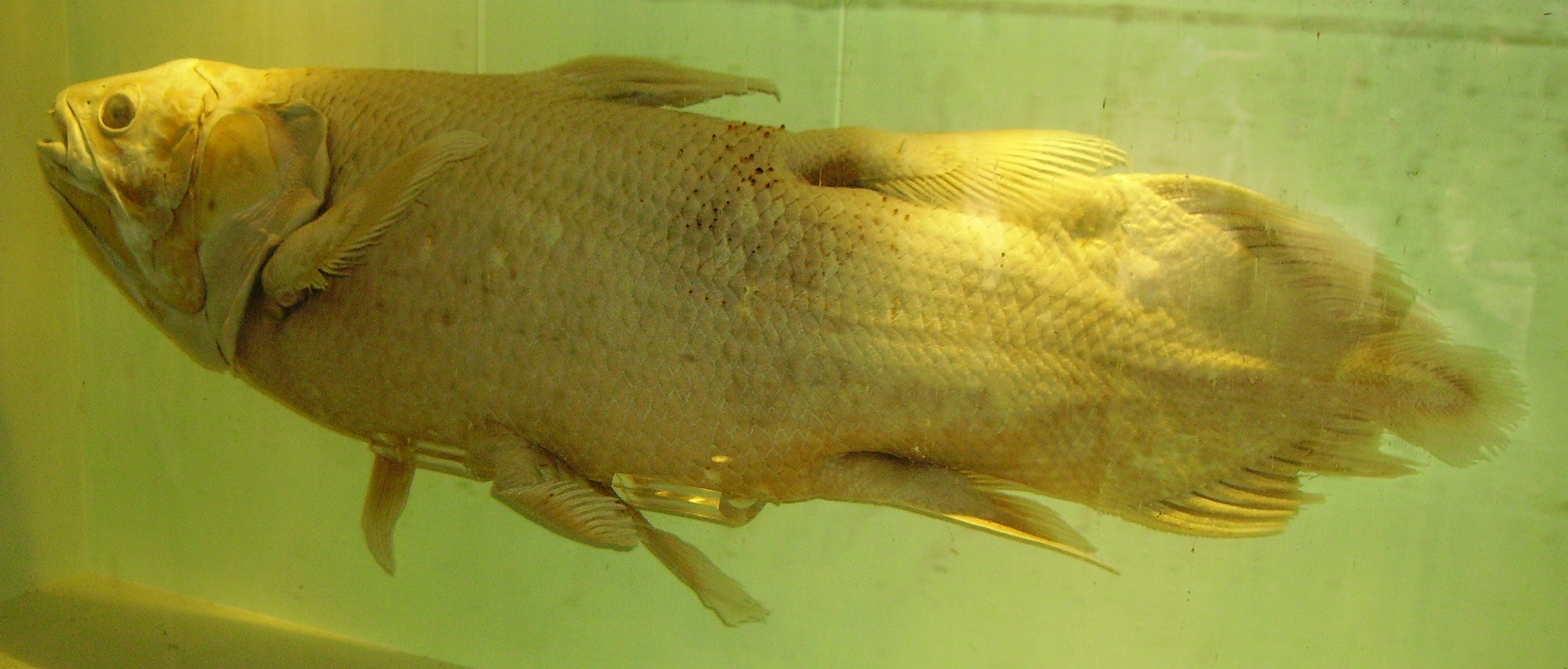 A preserved Coelacanth specimen in the Natural History Museum, London